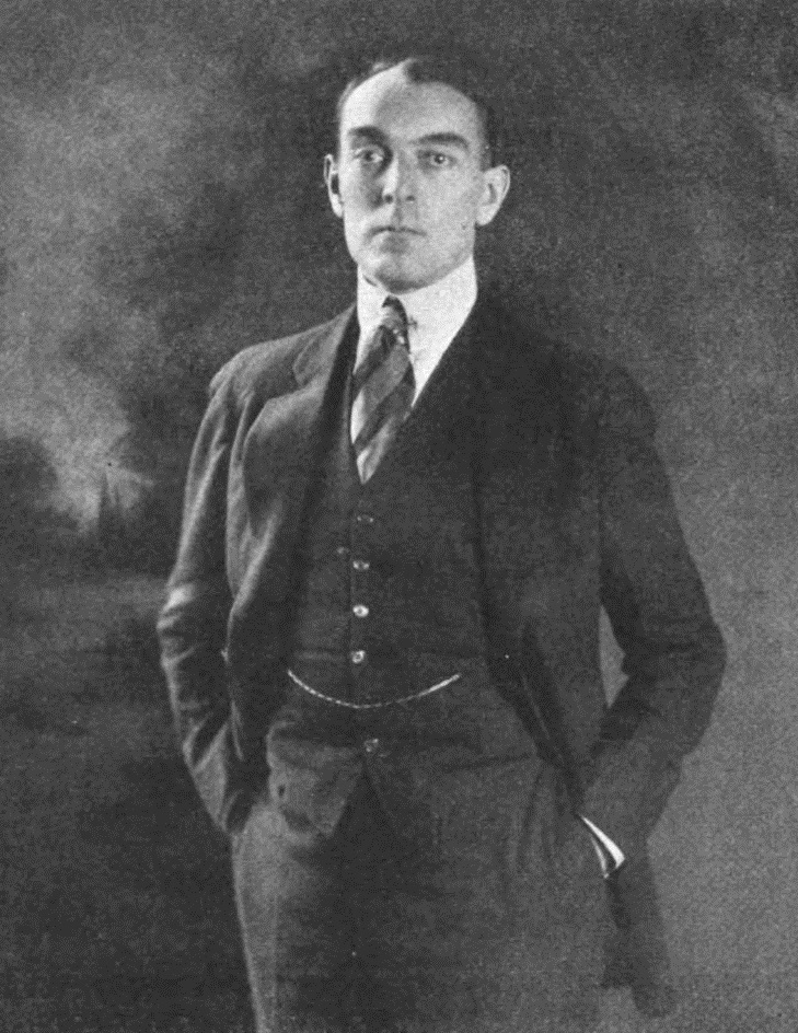 Ring Lardner